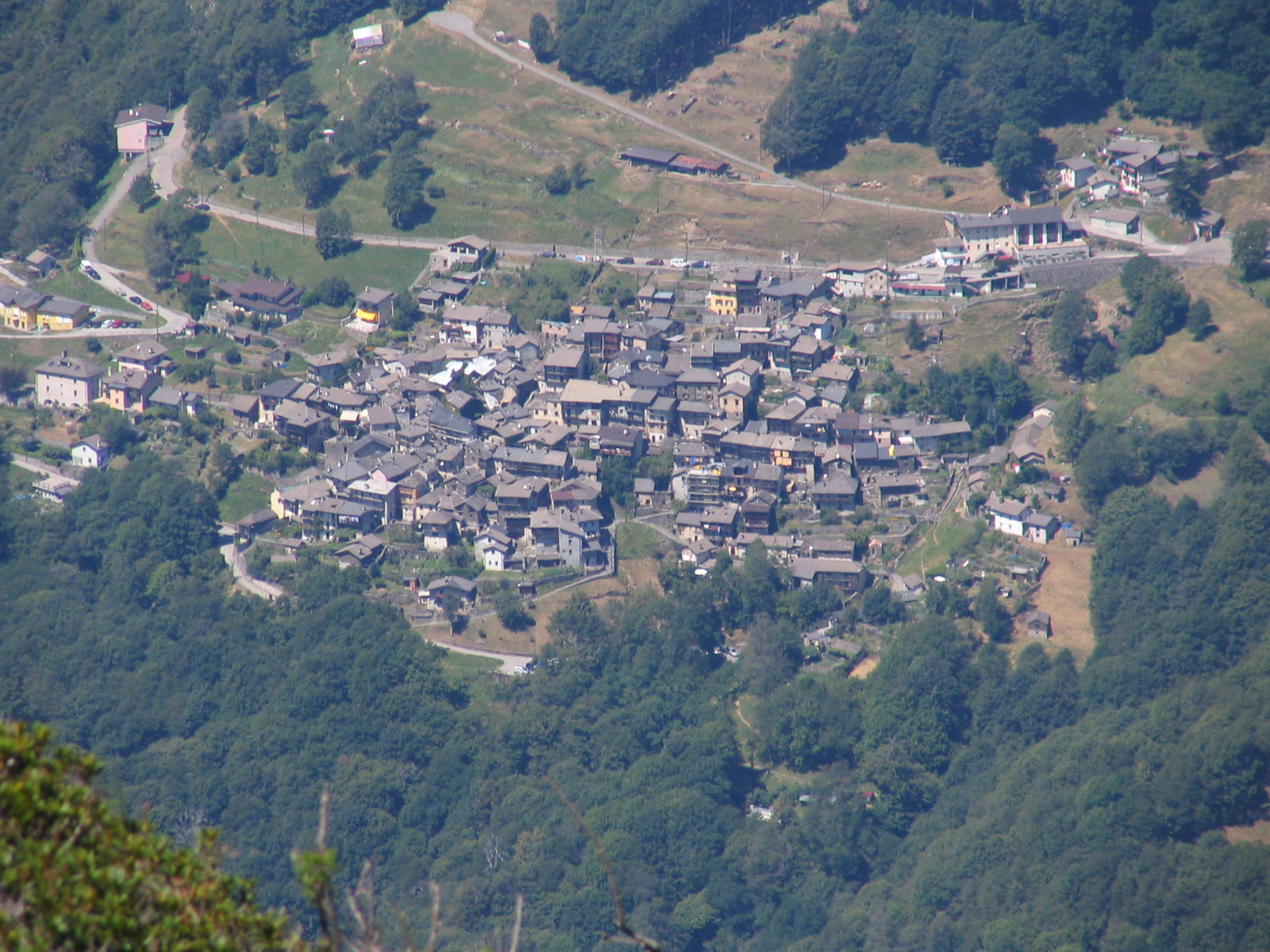 Indemini, a little village in Switzerland near the border to Italy. The picture was taken from the mount Tamaro.